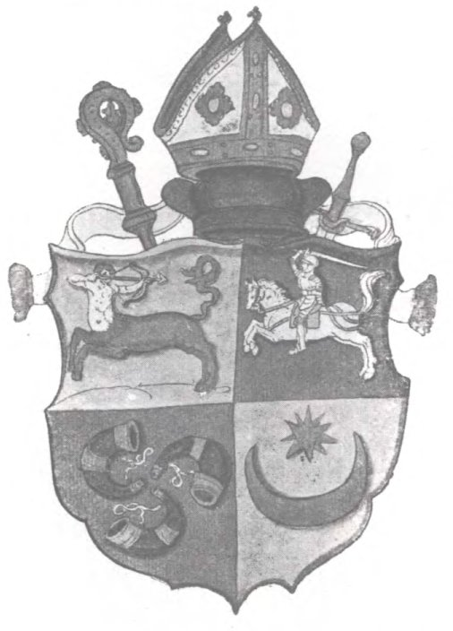 Coat-of-arms of Paweł Holszański, Bishop of Vilnius